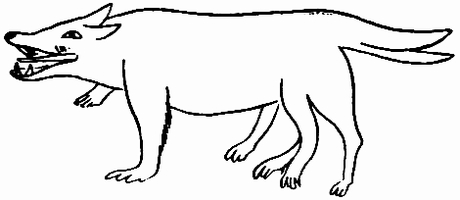 Raijū (a beast which falls to earth in a lightning bolt) from the Gendō-Hōgen